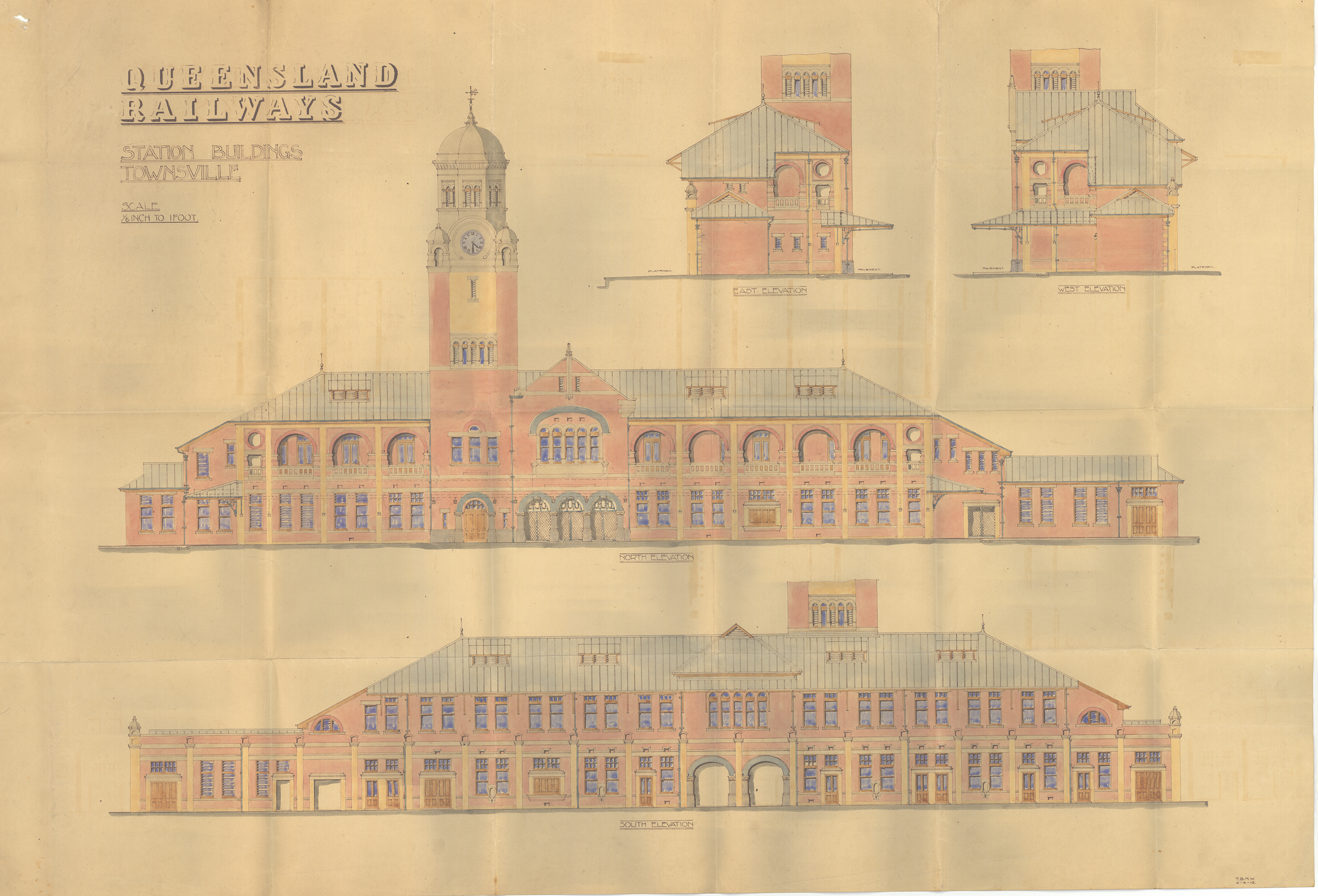 Proposed Townsville Railway Station, 1910